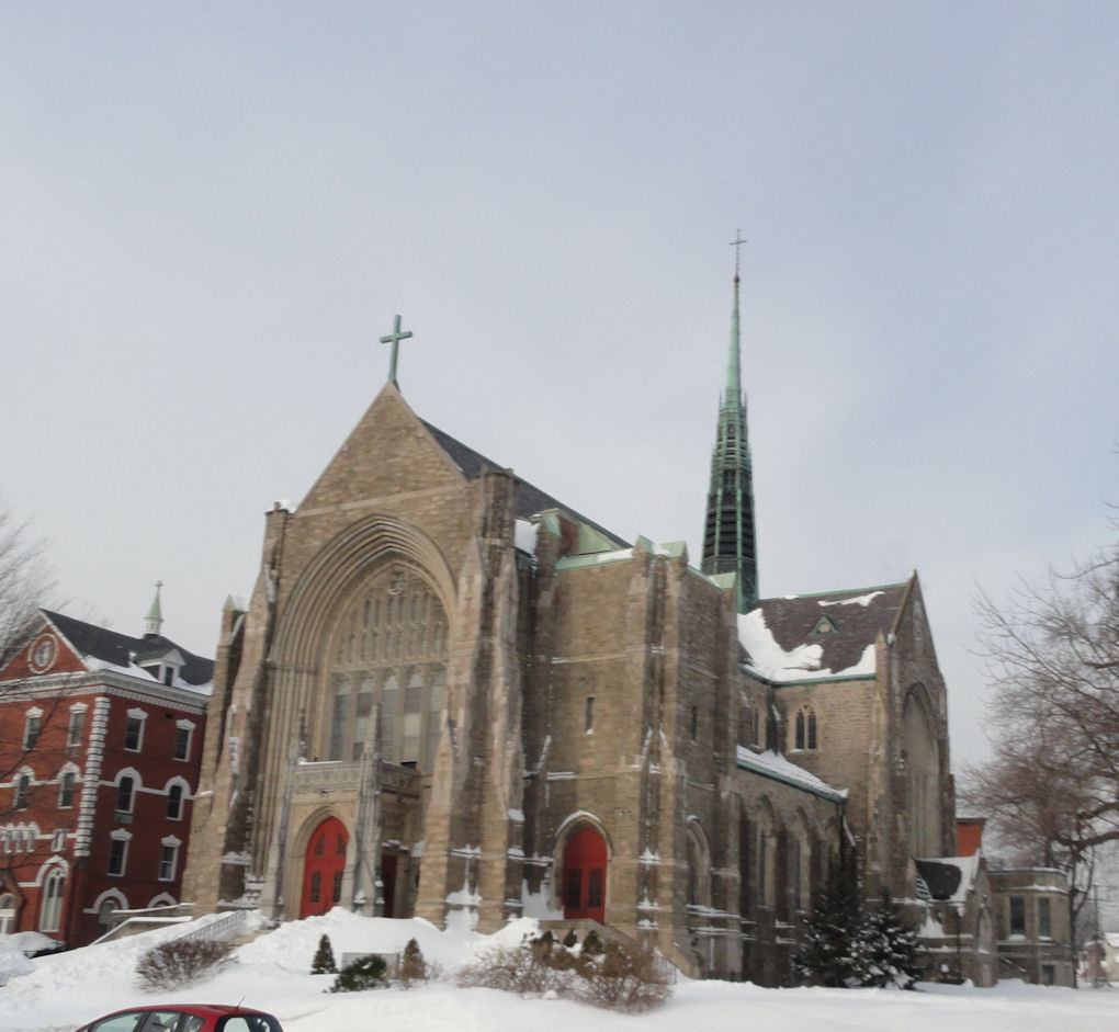 Our Lady of Sorrows Catholic Church Hartford Connecticut O'Connell and Shaw architects